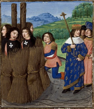 Burning of Templars. (British Library, Royal 14 E V f. 492v)